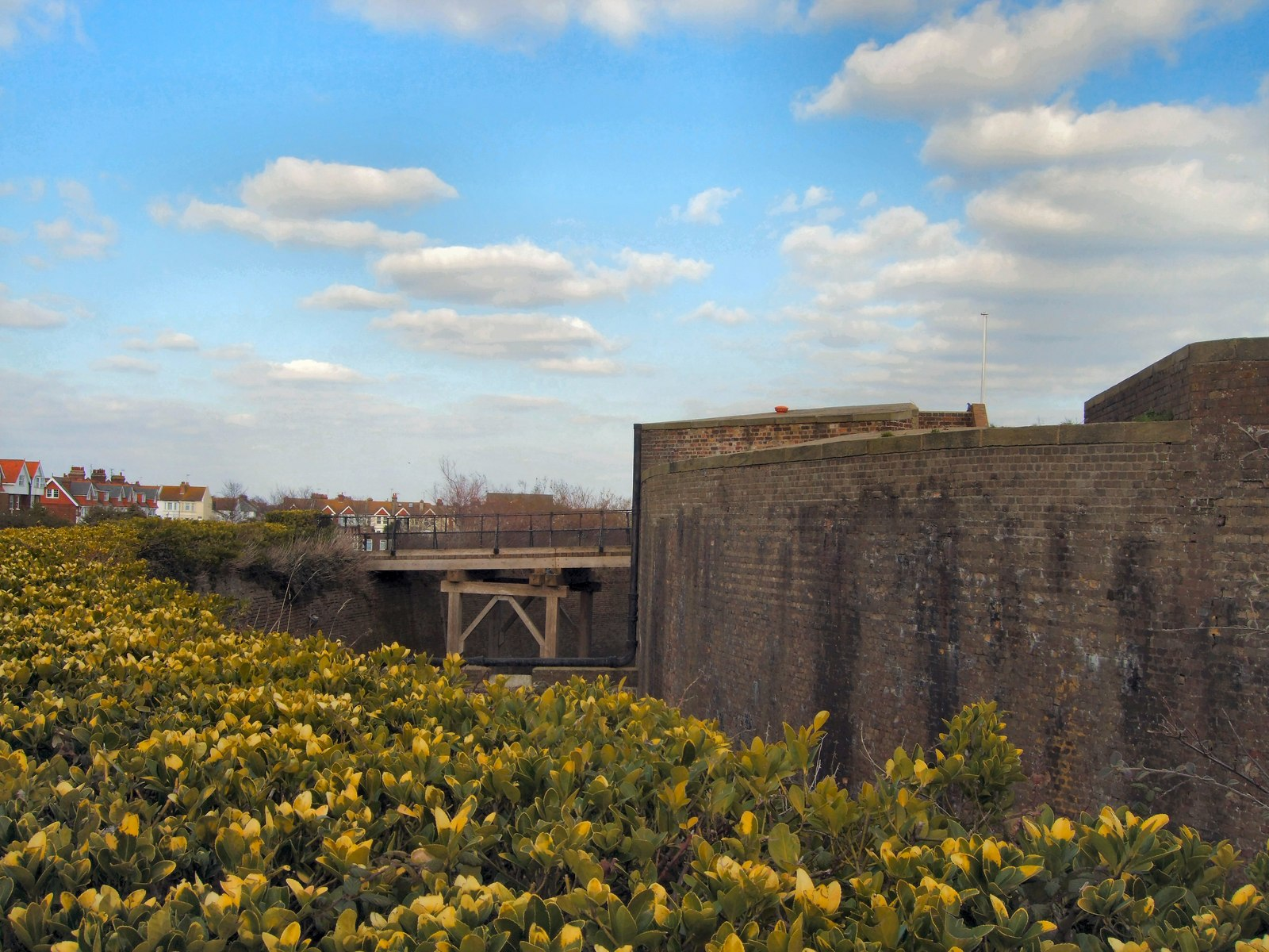 Redoubt Fortress Built in the early 1800's, the Redoubt was part of a massive building program to defend the south coast. 74 Martello Towers were built as well as three circular fortresses at Eastbourne, Dymchurch and Harwich. Nelson’s victory over Napoleon at the Battle of Trafalgar in 1805 ended any risk that Britain could be invaded. By 1859 advances in warfare and artillery meant that a British Government report found that the Martello Towers and Redoubts were ‘not an important element of security against attack’. The Redoubt slowly fell into disuse Today the Redoubt provides the perfect setting for the rich military collections of The Royal Sussex Regiment, The Queen's Royal Irish Hussars and the Sussex Combined Services.